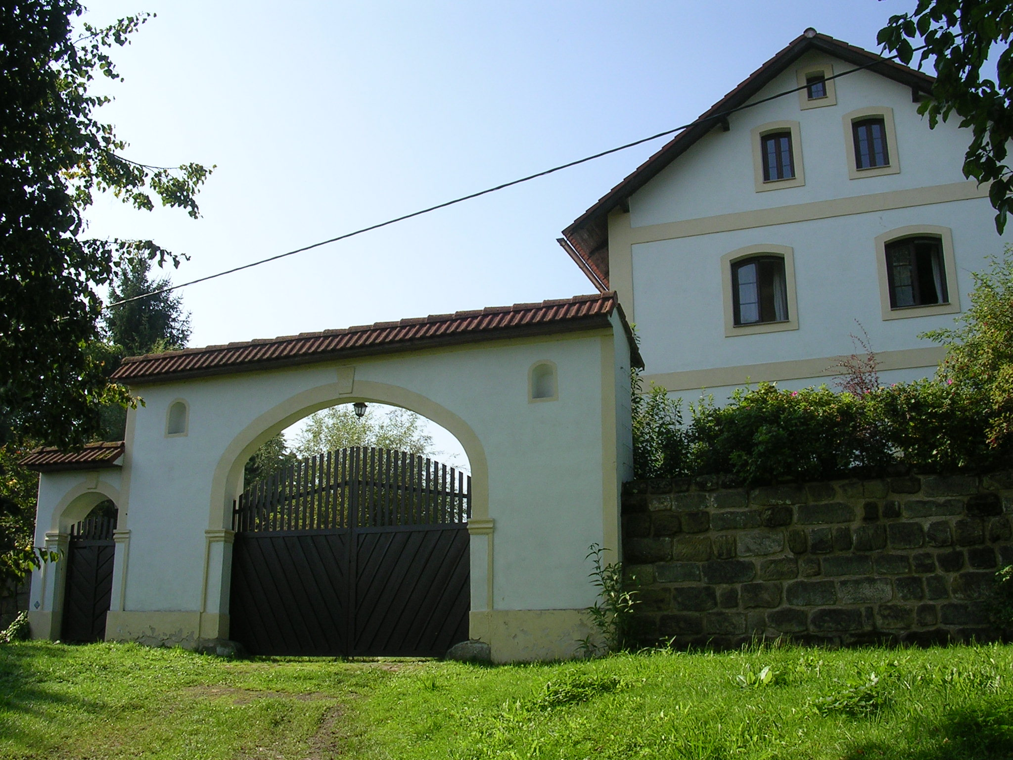 Všeň-Ploukonice, Semily District, Liberec Region, the Czech Republic. The house No 13.